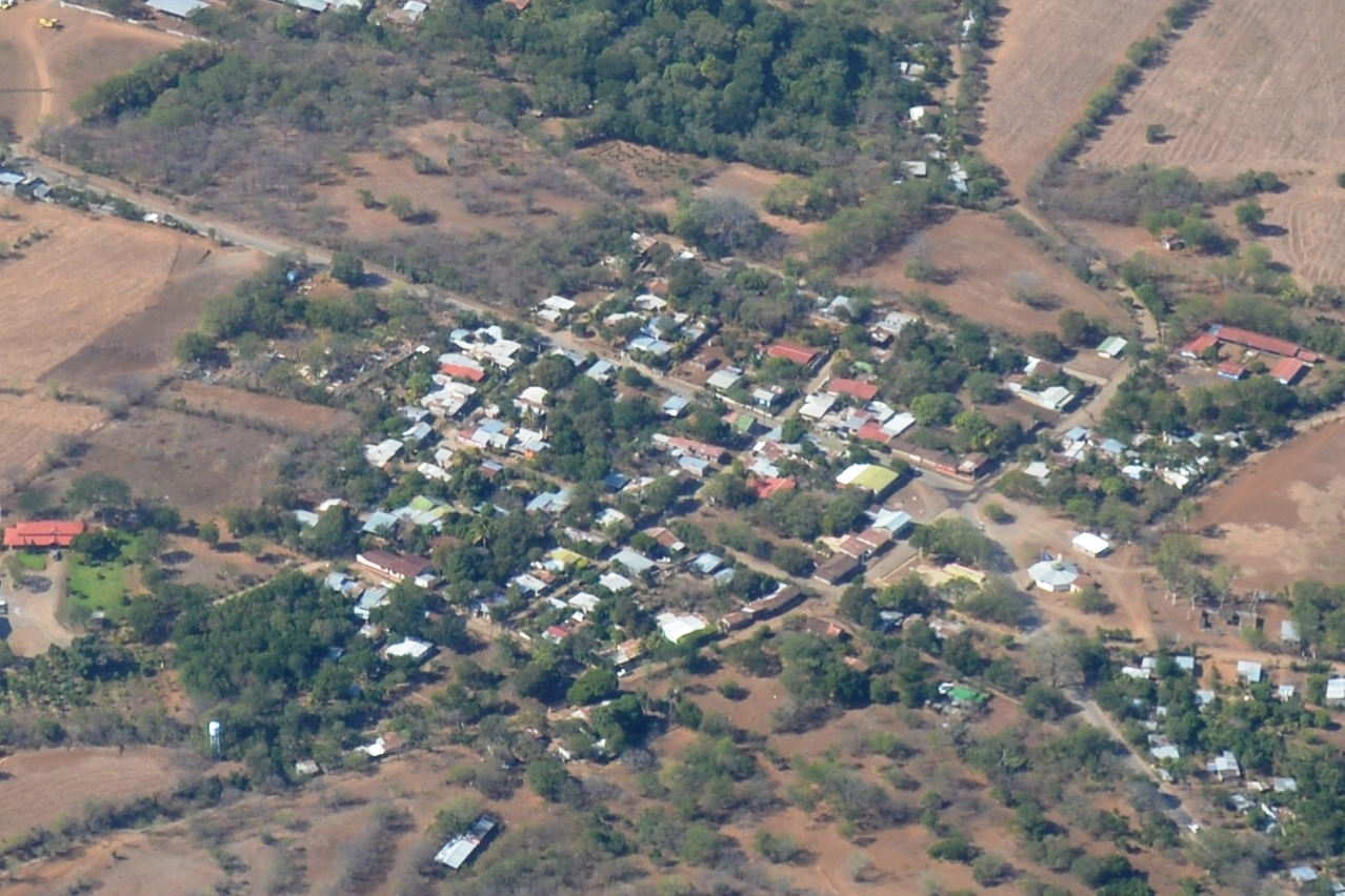 Vista aérea de Zambrano, Tipitapa, Nicaragua.